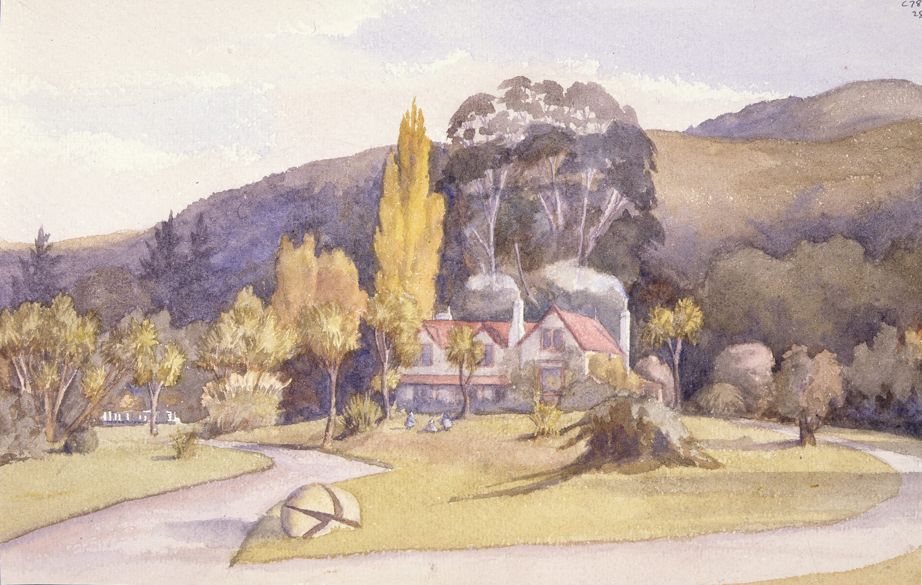 A view of Charles Tripp's homestead at Orari Gorge, Canterbury, with a large round rock (concretion) ornamenting the front lawn by the drive, three children on the lawn amongst cabbage trees, a bridge or outbuildings to the left and hills behind. The front lawn is circled by a drive.